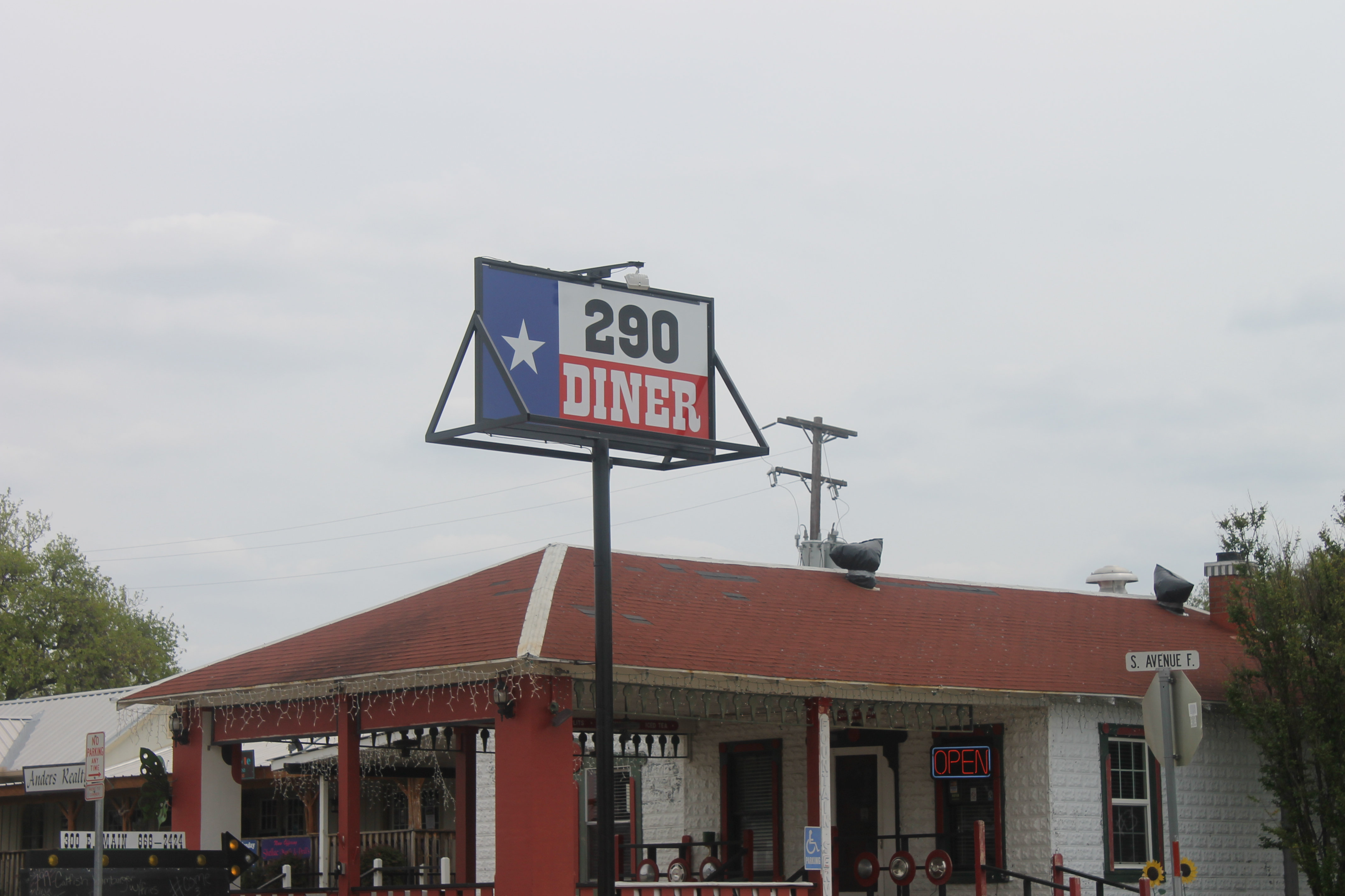 I took photo of 290 Diner in Johnson City, TX, with Canon camera.